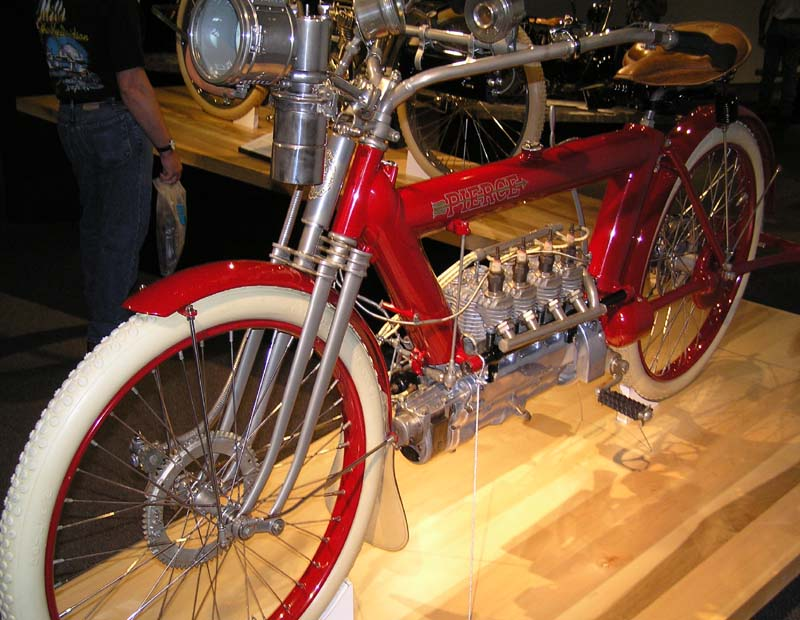 1910 Pierce Four - The Art of the Motorcycle - Memphis. Bore x stroke 2-1/2 x 2-1/2 in. Power: 4 hp. Top speed: 60 mph (97 kph). The Otis Chandler Vintage Museum of Transportation and Wildlife, Oxnard, California.